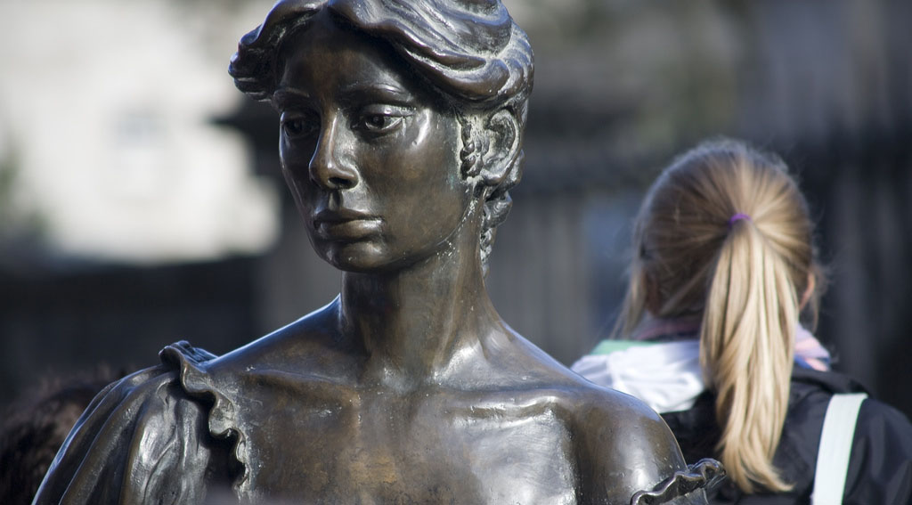 Molly Malone